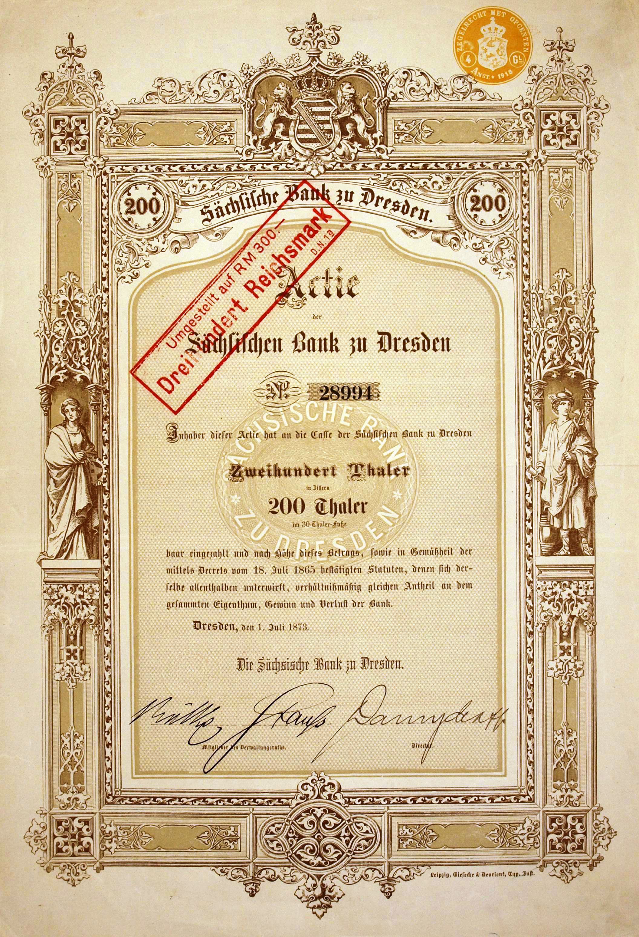 Share of the Sächsische Bank zu Dresden, issued 1. July 1873